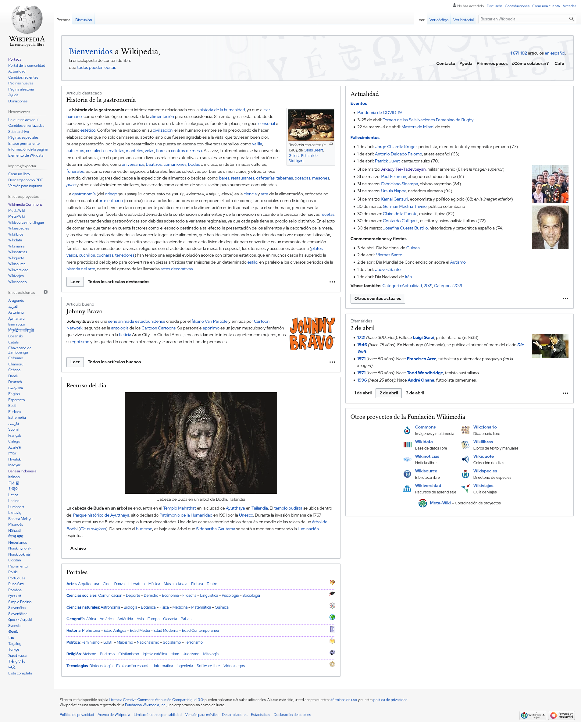 Screenshot of the latest version of the Spanish Wikipedia's on April 12th 2012 main page